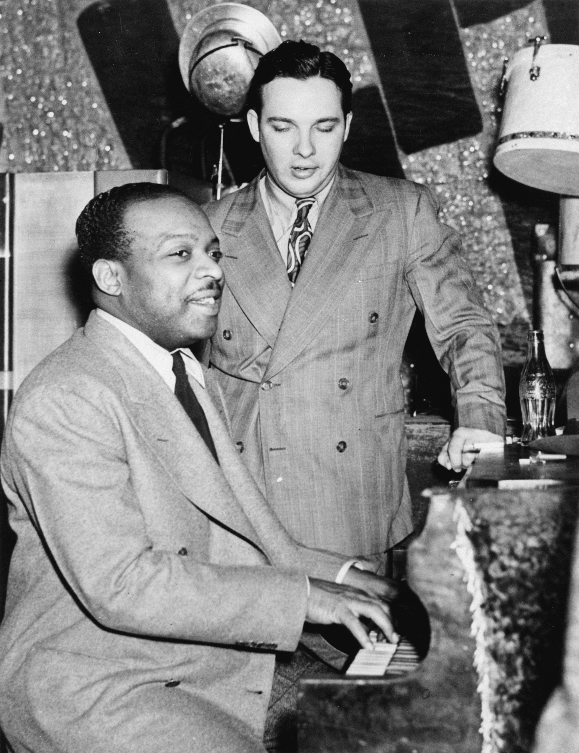 Count Basie and Bob Crosby, Howard Theatre, Washington D.C., ca. 1941. Photography by William P. Gottlieb